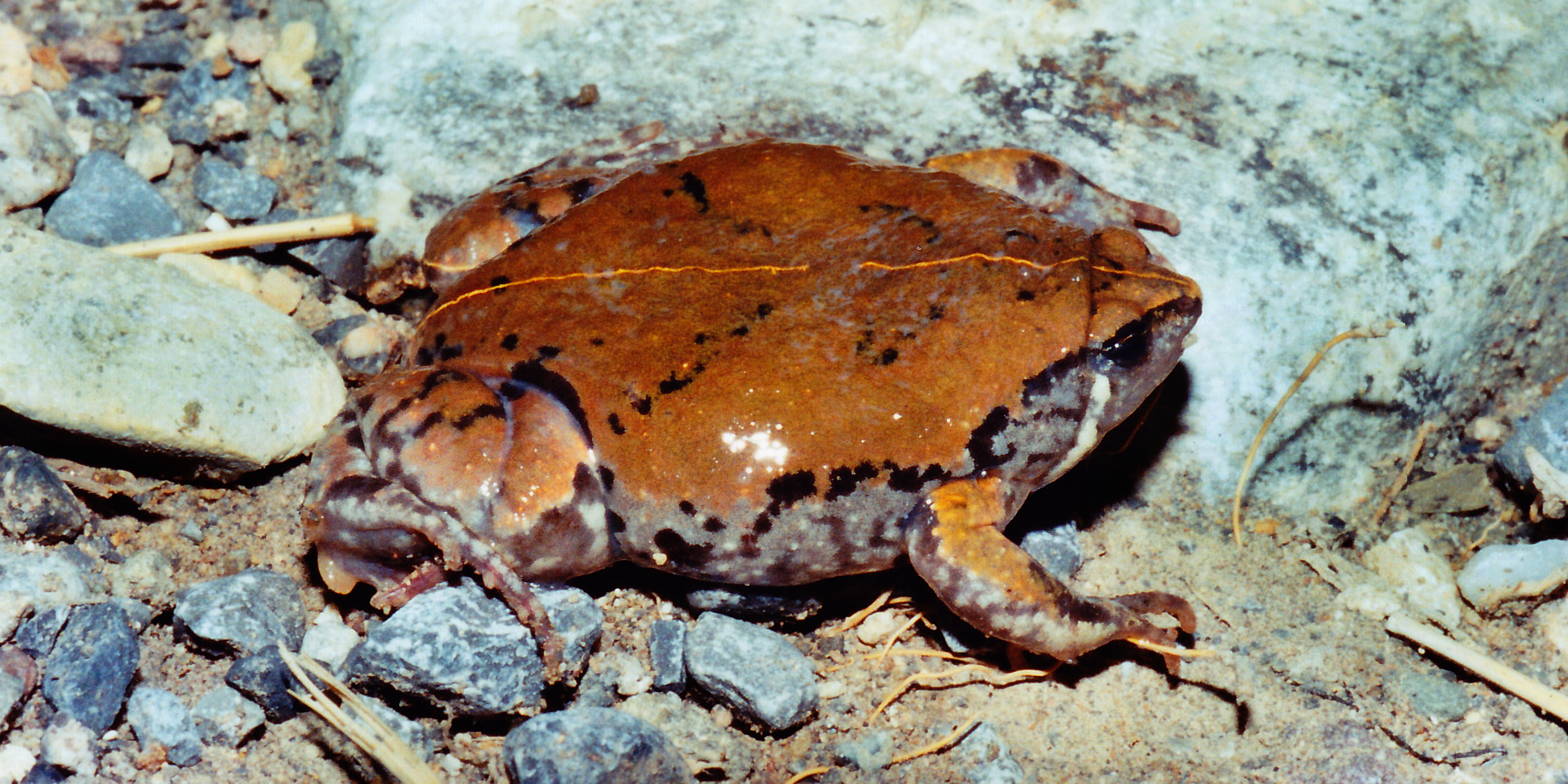 Sheep Frog, Tamaulipas (Hypopachus variolosus), Municipality of Victoria, Tamaulipas, Mexico. Photographed on 12 August 2003 by William L. Farr. This image was originally photographed with film and later scanned from a print.